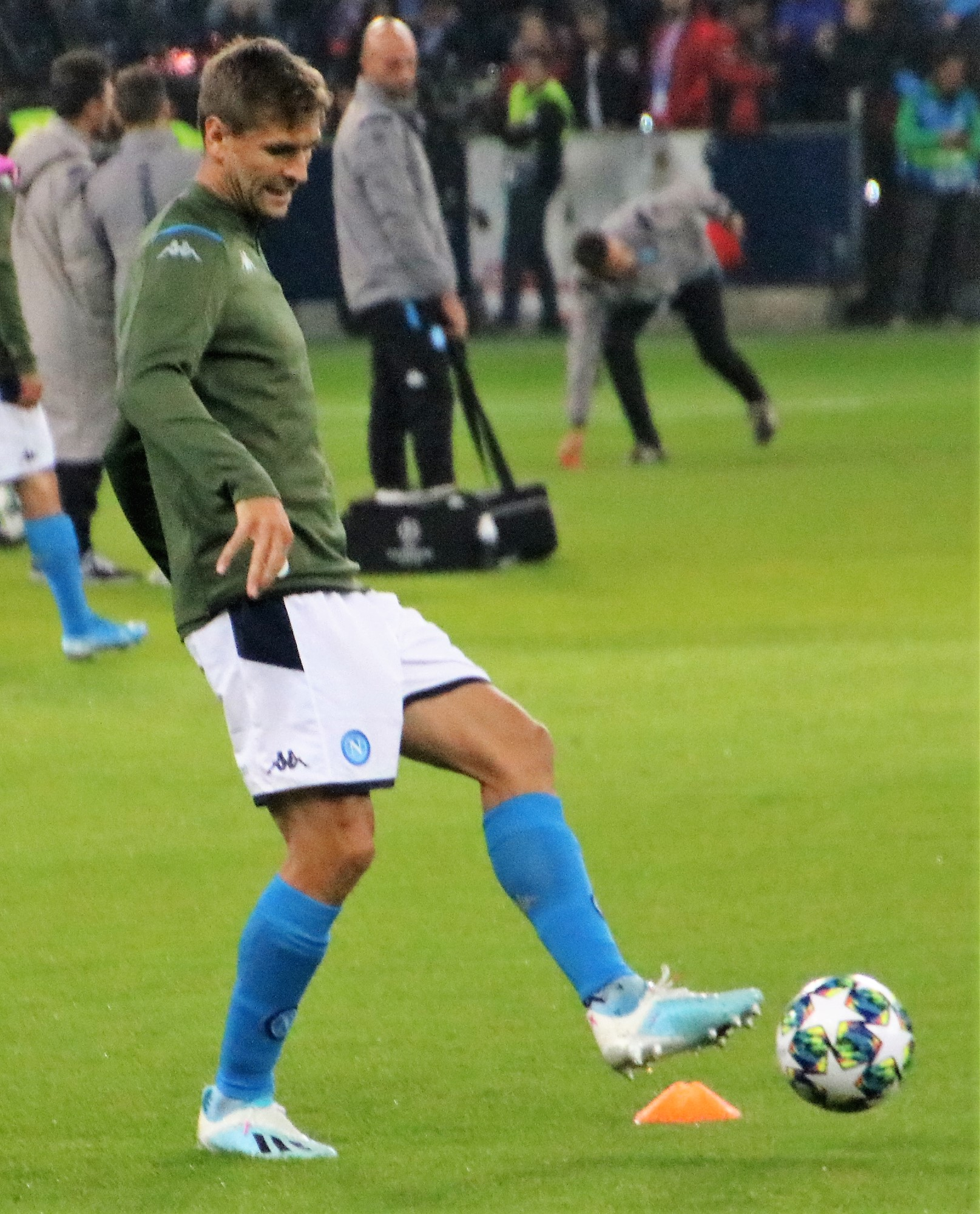 3rd round UEFA Champions League